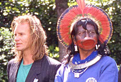 Raoni and english singer Sting in Paris (France) - april 1989